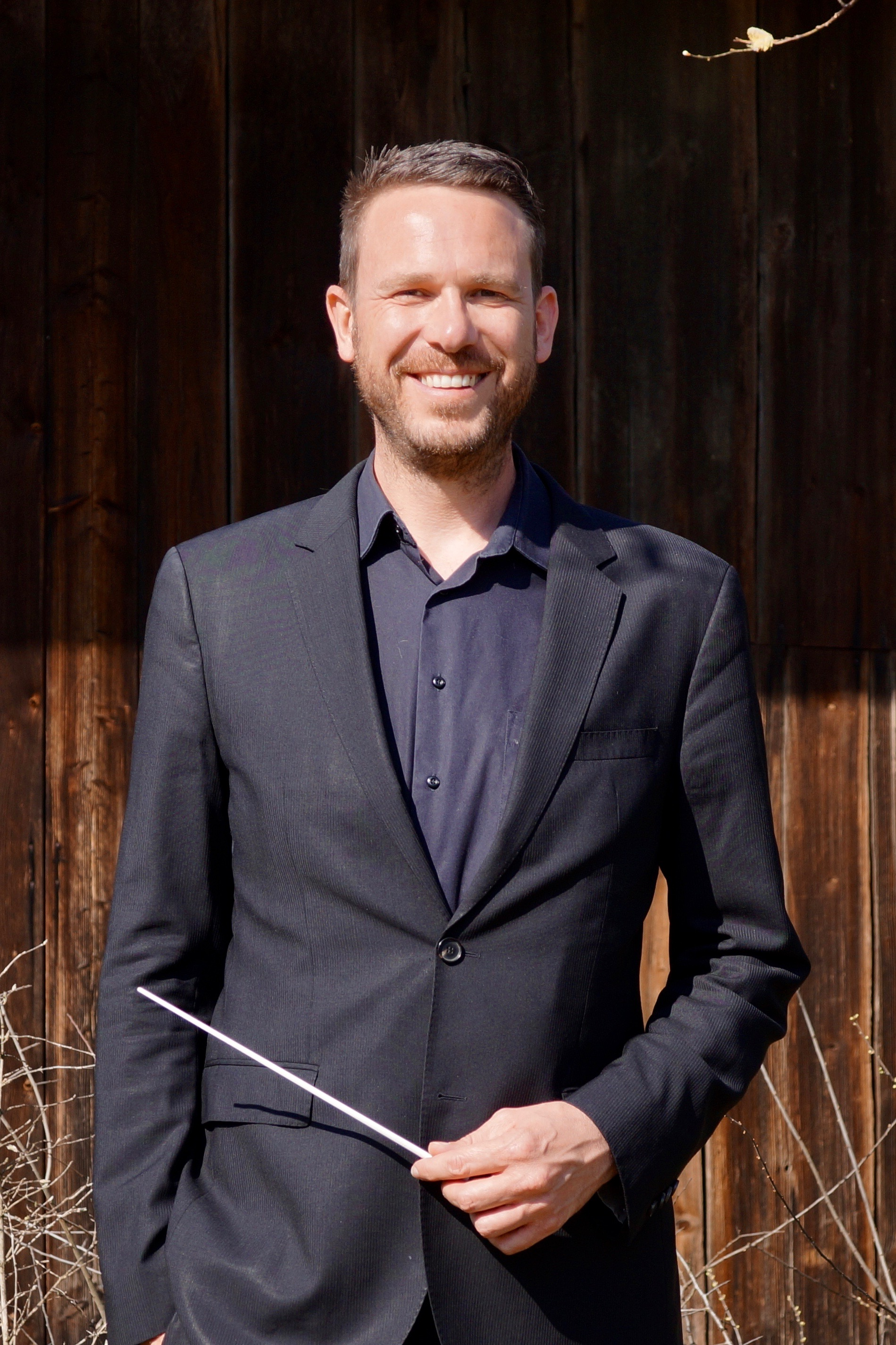 Benjamin Markl (b. 1979), a German wind band conductor